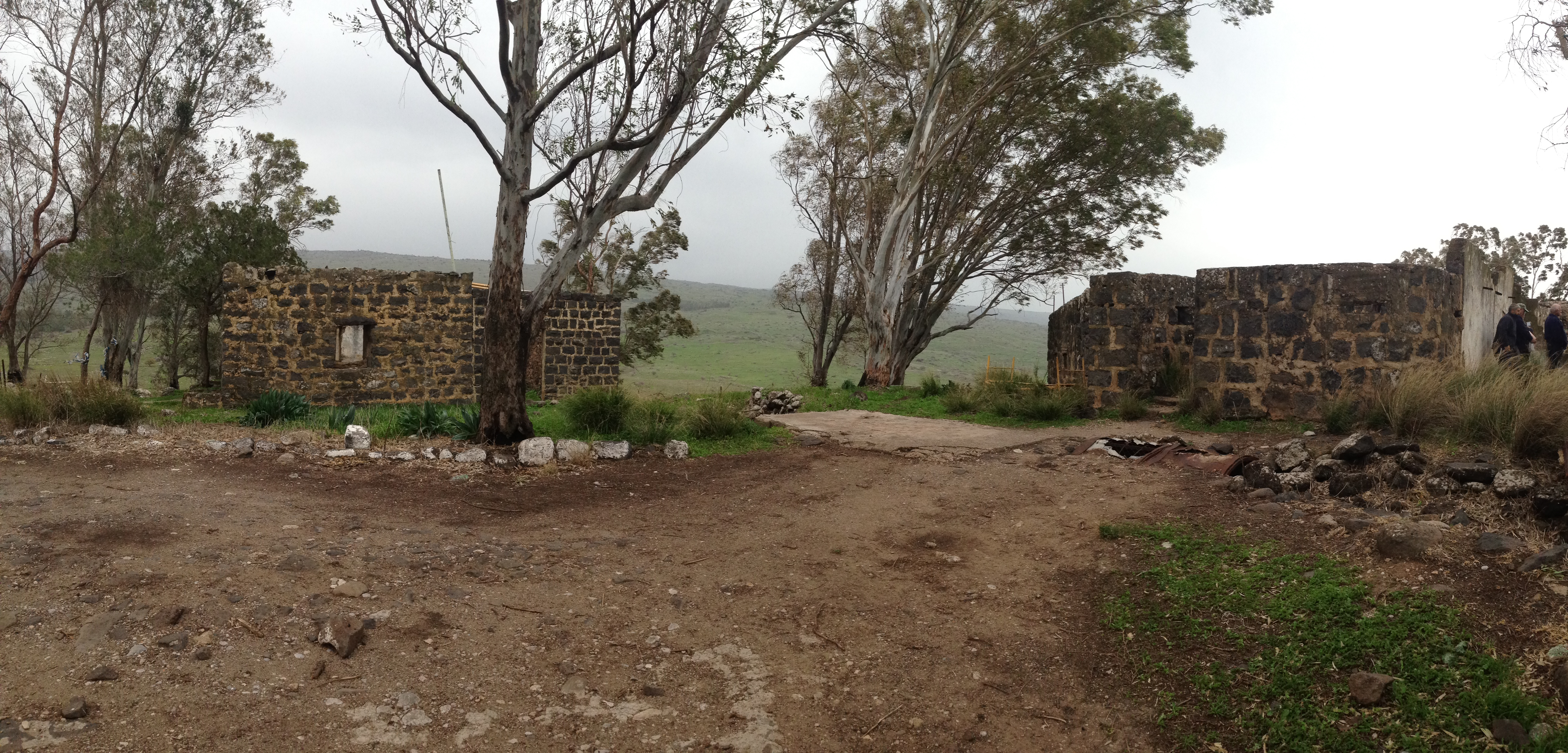 Tel Azaziat, Golan hights slopes, Israel.